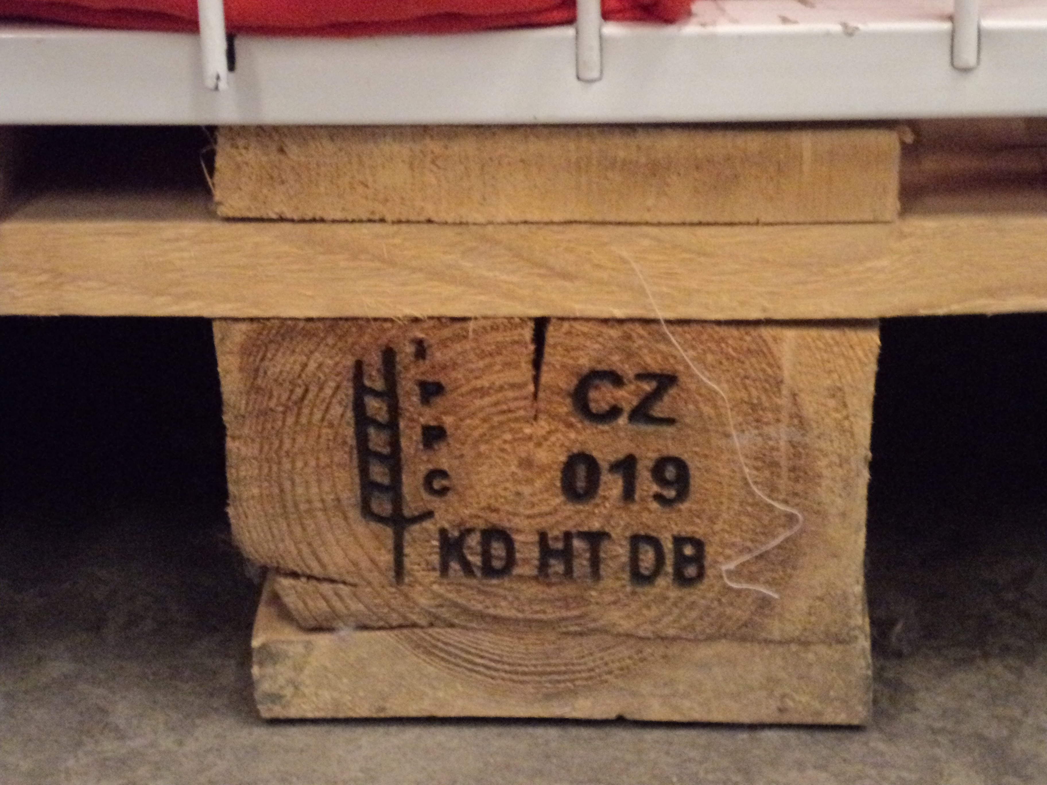 Taken at a local Canadian IKEA store. IPPC markings on a wooden pallet, showing that the wood has been kiln-dried (KD), heat-treated (HT) and debarked (DB), as required under ISPM 15. The CZ indicates that the pallet was made in the Czech Republic.